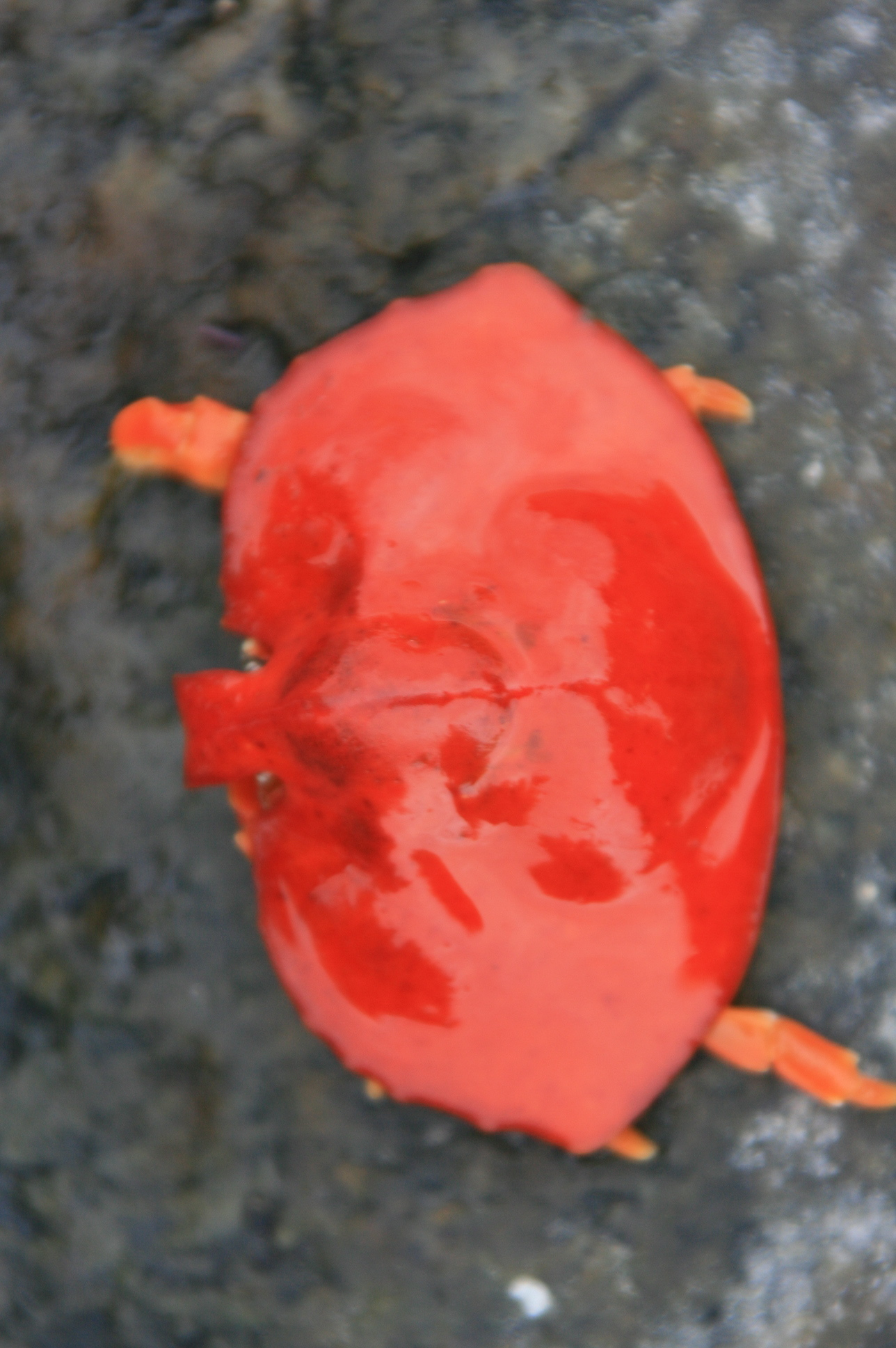 Found In Clallam Bay WA